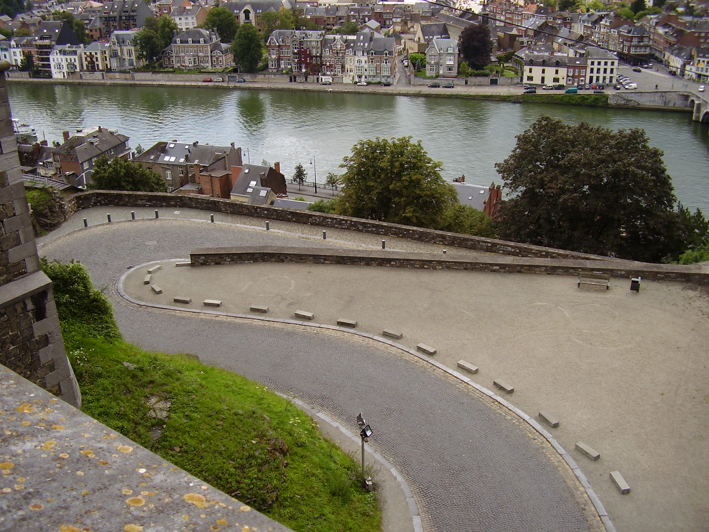 Namur (city), Belgium